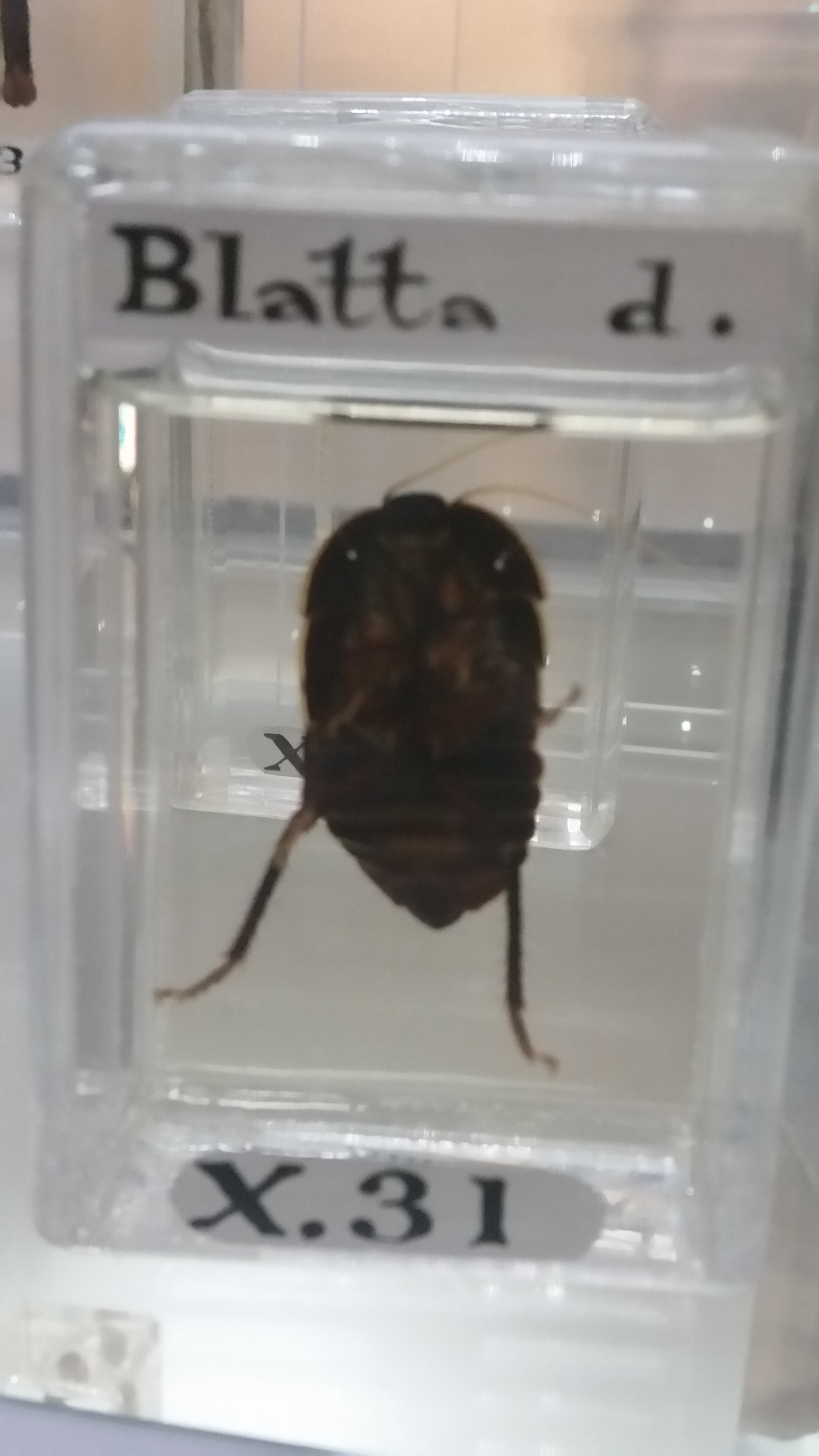 Calolampra elegans in the Hunterian Museum at the Royal College of Surgeons of England.